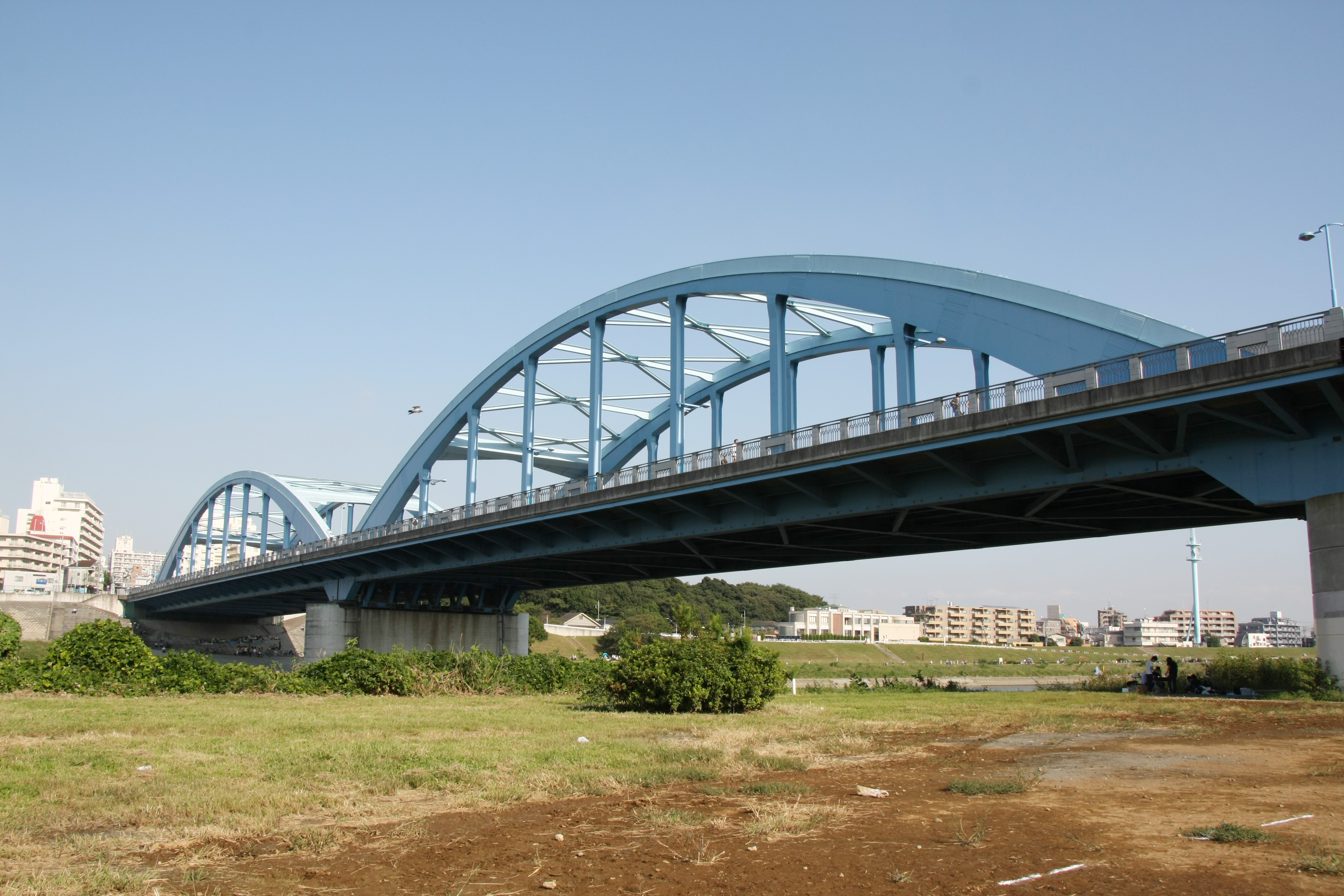 Maruko Bridge